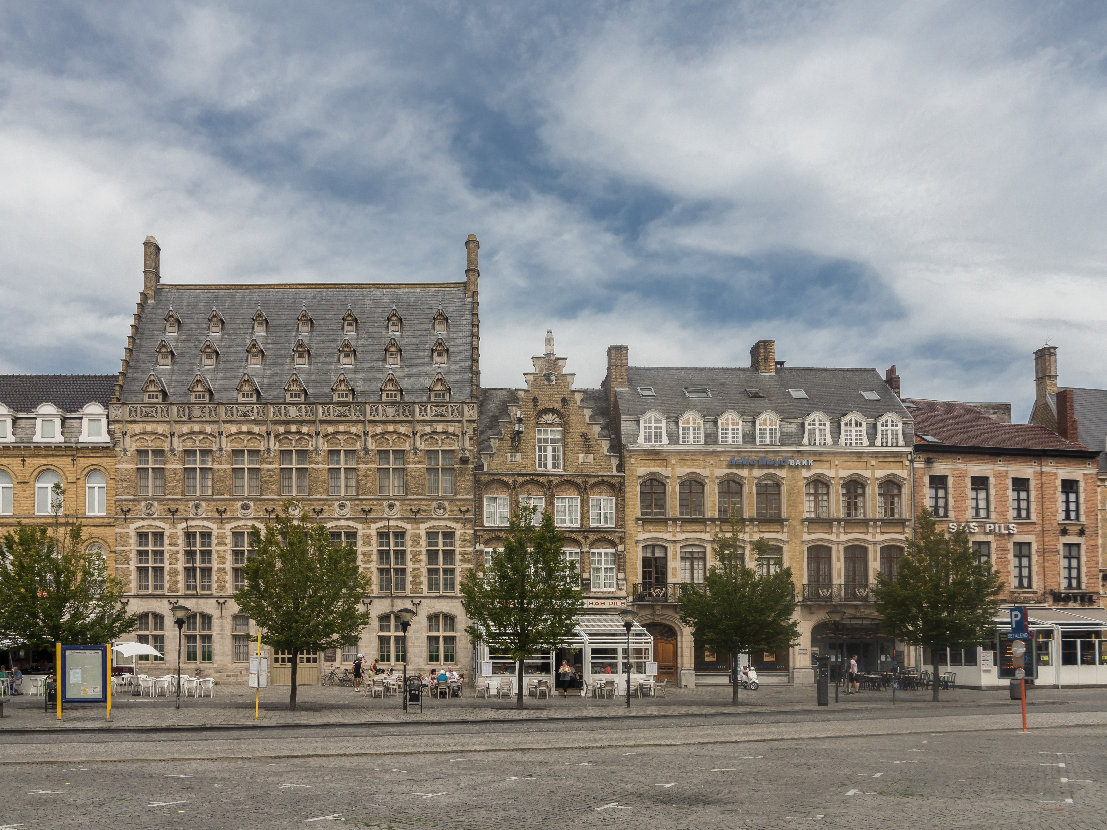 Ypres, streetview: de Grote Markt